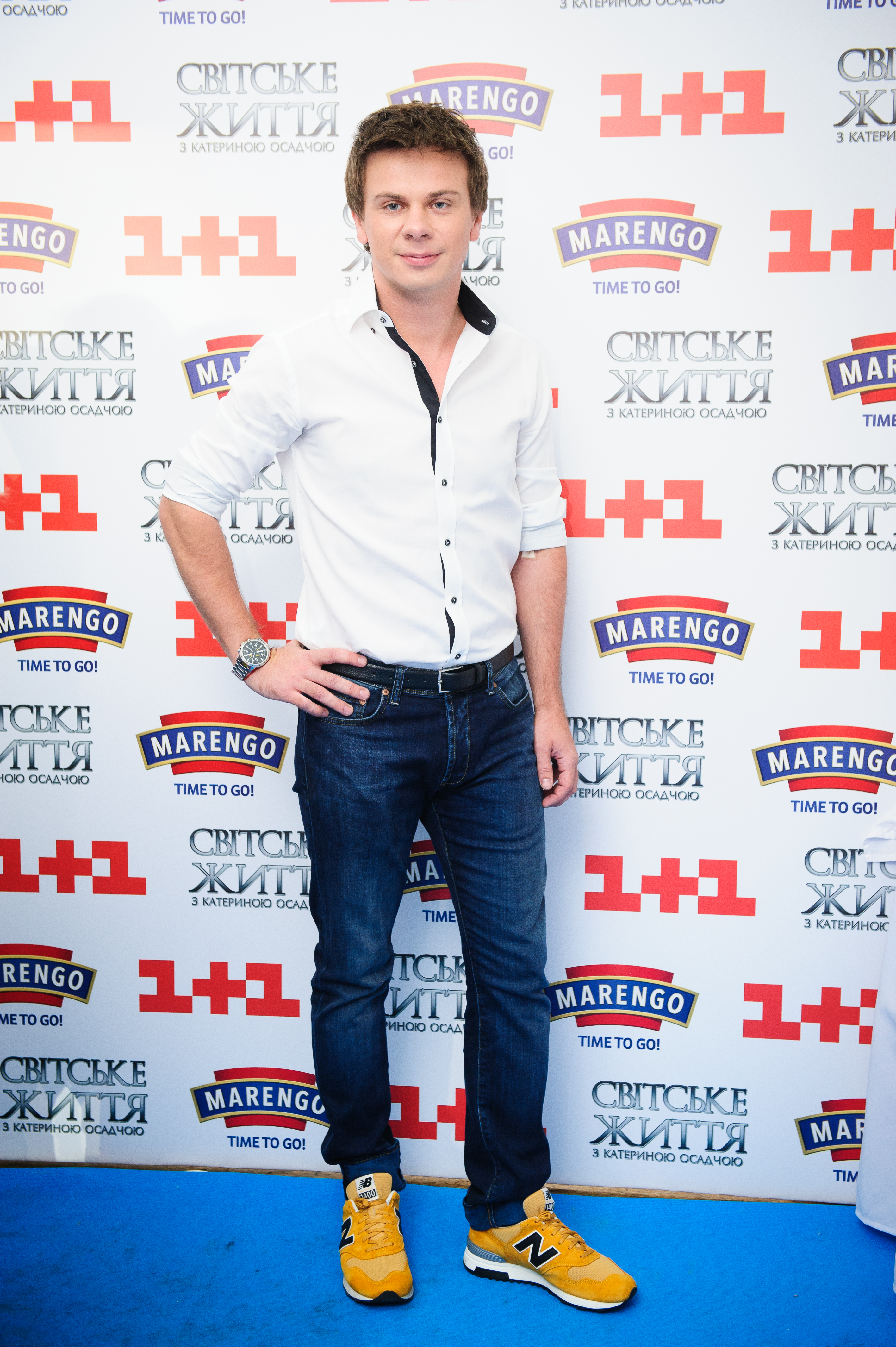 Світське життя. 10 років